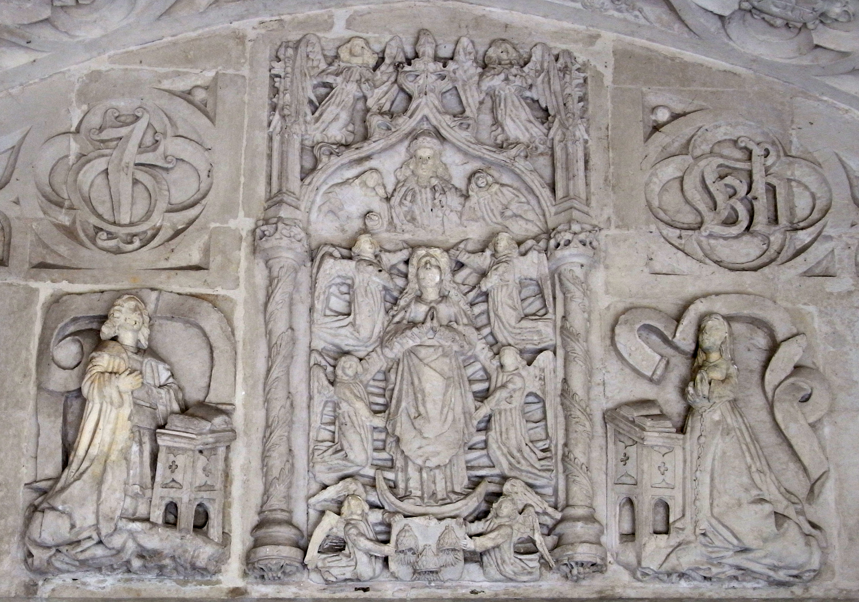 1517 relief sculpture in the Greenway Porch, built in 1517 against the south wall of St Peter's Church, Tiverton, Devon, by the wealthy merchant John Greenway (d.1529), a member of the Merchant Adventurers Company and of the Drapers Company. It shows Greenway (left, with initials "JG" above) and his wife kneeling either side of the Virgin Mary who is standing on a crescent moon and is ascending into Heaven, with backdrop of a palm-frond, lifted up by angels to a figure of God the father crowned as the King of Heaven, above. Below the Virgin is an heraldic escutcheon showing the arms of the Drapers Company (Azure, three clouds radiated proper each adorned with a triple crown or), with the very rarely surviving pre-Reformation angel supporters, the Virgin being the patroness of the Drapers Company.